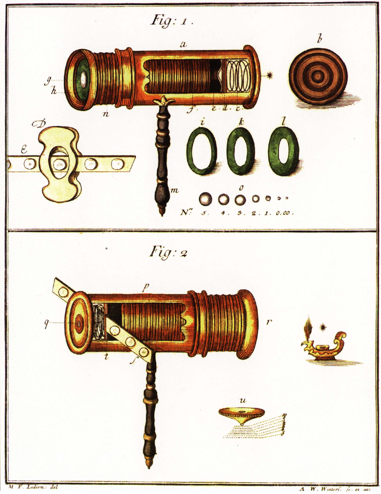 Single Lens Microscope, called "Wilson's screw-barrel microscope", after an English manufacturer who popularized it. Seven lenses (5 — 00) are shown at the bottom of the upper half. The smaller the lens, the more curved was the surface and thus the stronger was the magnification. For each lens, there was a special mount (b, q). Focussing was performed by turning the large screw against the spring. In the assembled state shown in the bottom half (with objects; strip with circles) the eye of the observer would be on the left side, an illumination on the right side.